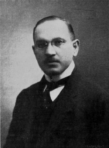 Portrait of the literary historian Elemér Császár